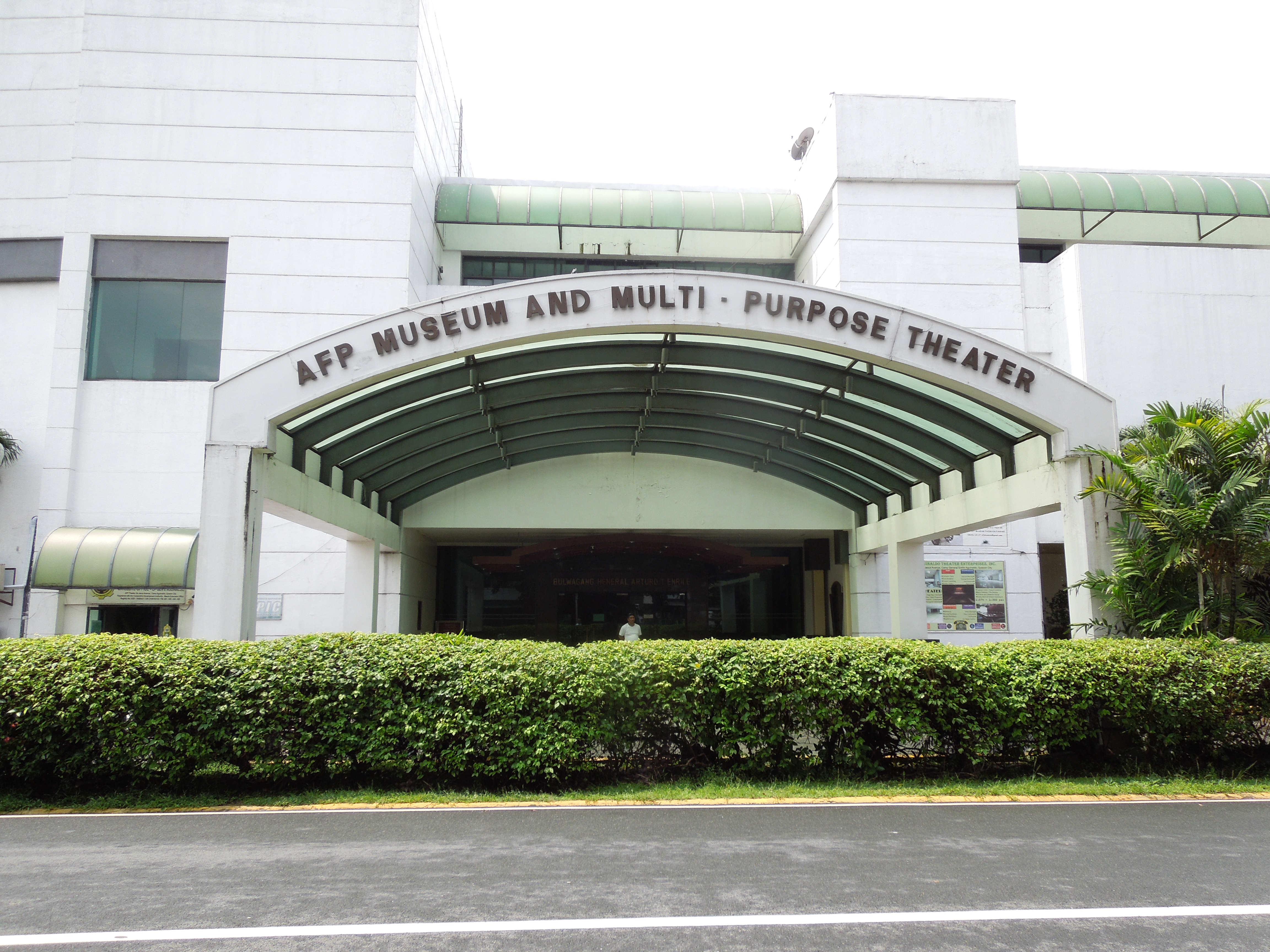 Camp Aguinaldo AFP Museum and Multi-Purpose Theater or Armed Forces of the Philippines Museum List of theaters and concert halls in Metro Manila List of concert halls Camp Aguinaldo Camp General Emilio Aguinaldo (CGEA) General Headquarters Building of the AFP, Quezon City Philippine National Police Arturo Enrile Bulwagang Heneral Arturo T. Enrile Chief of Staff of the Armed Forces of the Philippines St. Ignatius Cathedral (Camp General Emilio Aguinaldo, GQ AFP, Quezon Ciy) Rehabilitated in 1993 under Lisandro C. Abadia completed Inaugurated December 16, 1995 under Arturo Enrile Military Ordinariate of the Philippines in the List of barangays of Metro Manila Legislative districts of Quezon City Districts 3, Barangays of Quezon City, Socorro, Quezon City and Bagong Lipunan ng Crame, District III, Cubao, Quezon City, along Bonny Serrano Avenue corner EDSA (Epifanios de los Santos Avenue) (Note: Judge Florentino Floro, the owner, to repeat, Donor Florentino Floro of all these photos hereby donate gratuitously, freely and unconditionally all these photos to and for Wikimedia Commons, exclusively, for public use of the public domain, and again without any condition whatsoever).